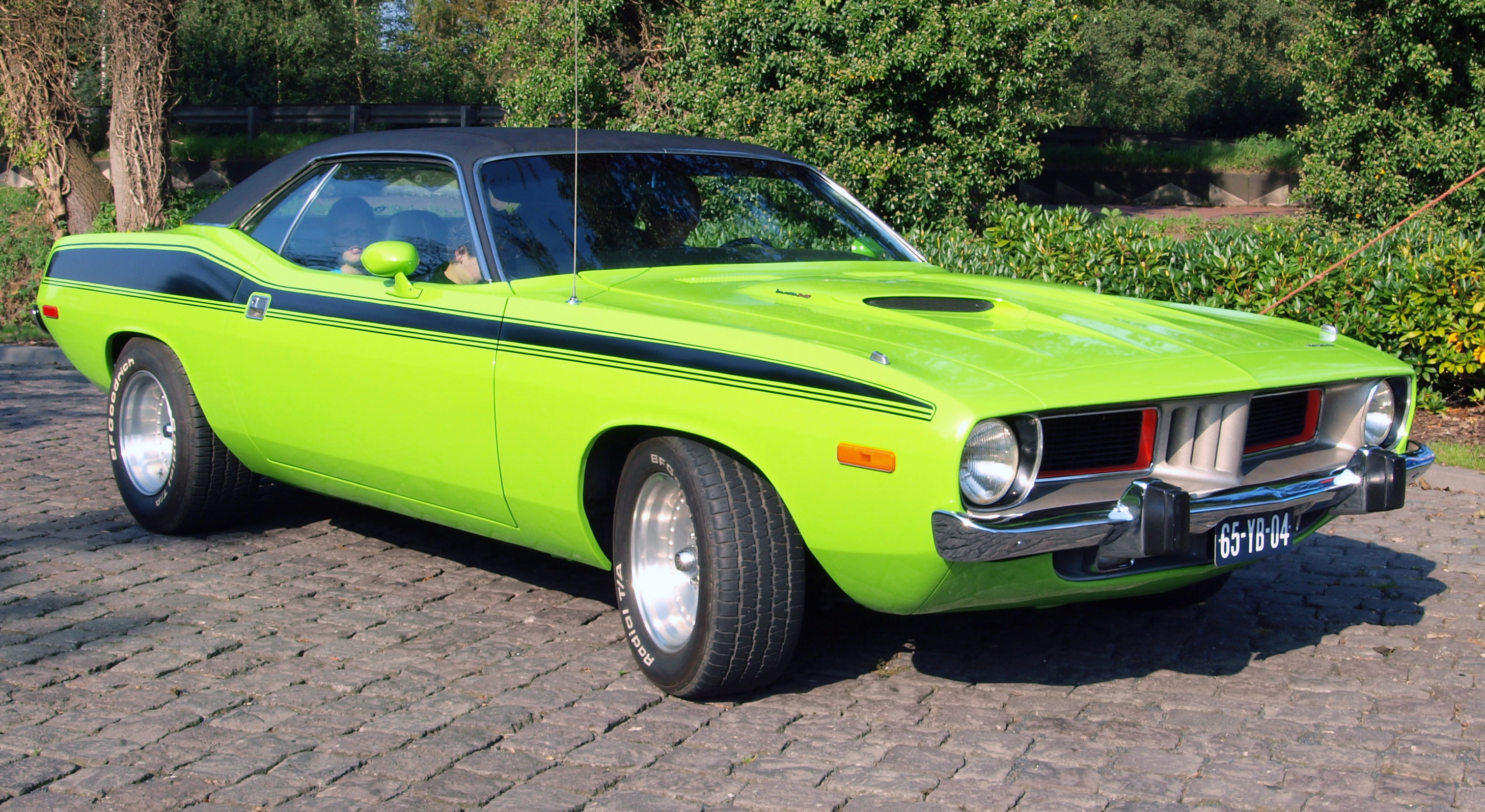 Photographed at the premmesis of the Louwman museum, The Hague, The Netherlands. OLYMPUS DIGITAL CAMERA